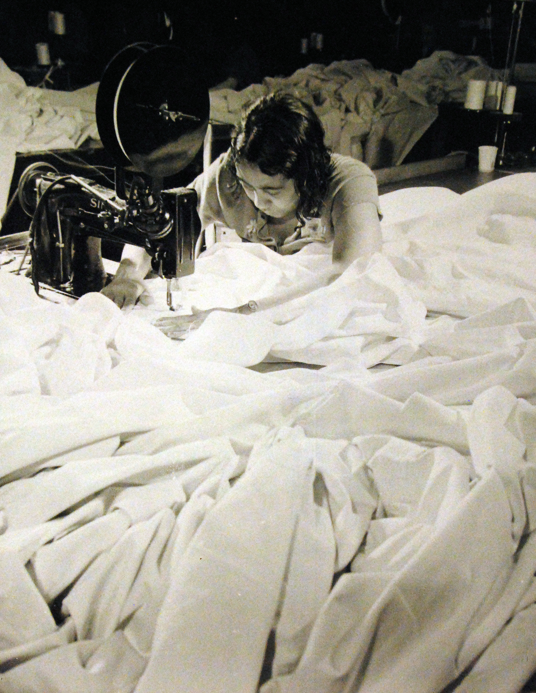 Lot 2073-5: Manpower: African-American Navy Yard Workers. In a sea of silk, this woman worker is making parachutes for America’s paratroopers. She is one of many African-Americans at a large eastern shipyard (Naval Aircraft Factory, Philadelphia, Pennsylvania), May 1942. Office of War Information Photograph. Courtesy of the Library of Congress. (2016/05/12).